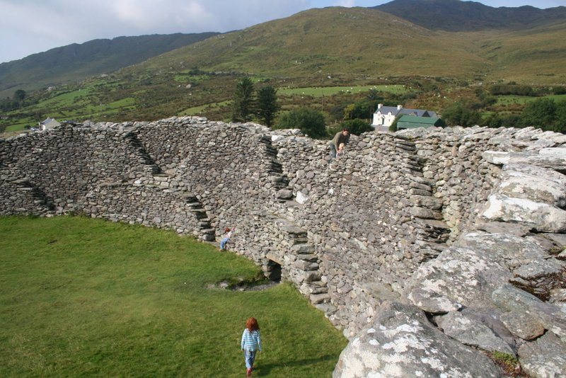 Staigue Cashel